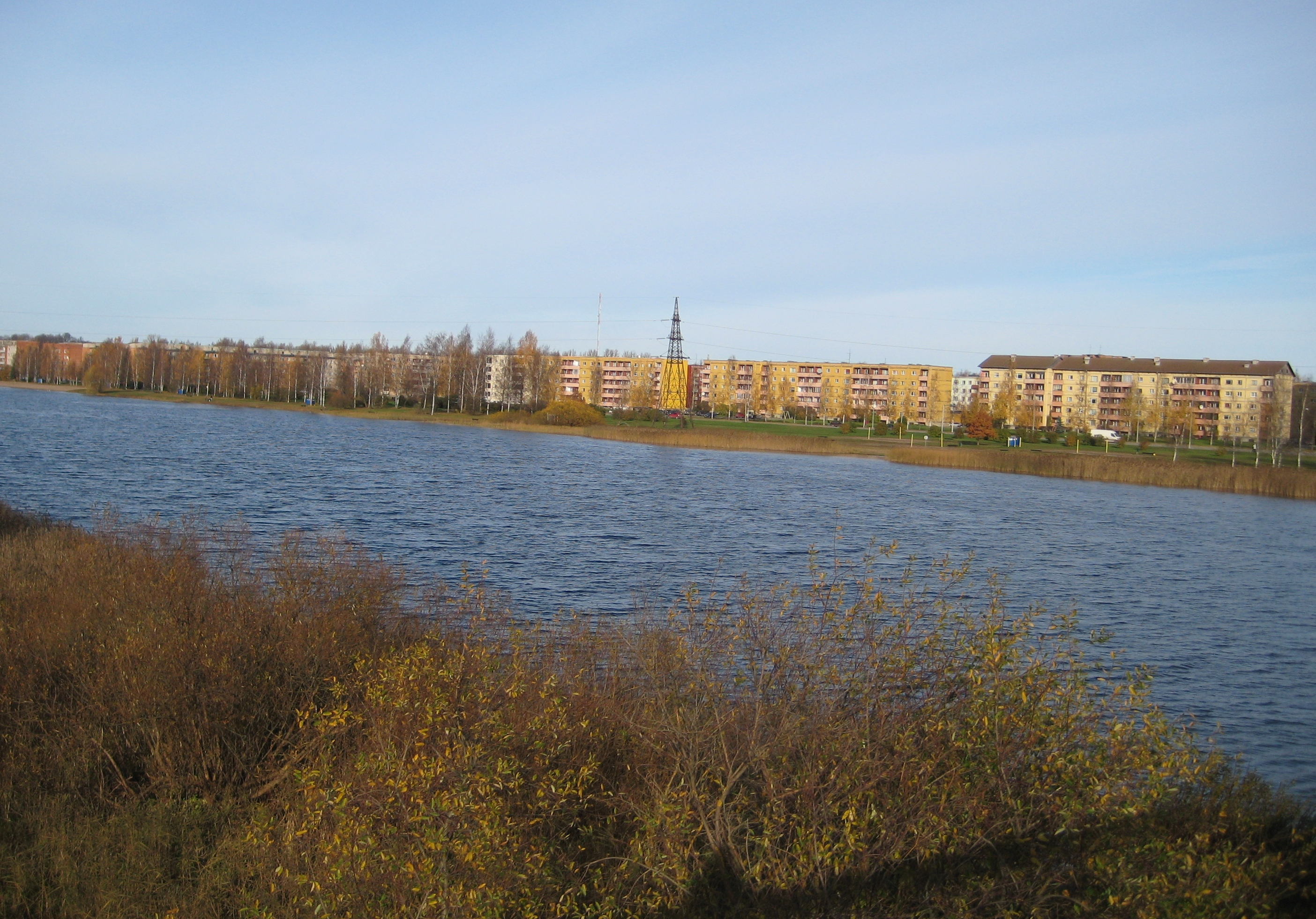 Anne canal, Tartu, Estonia